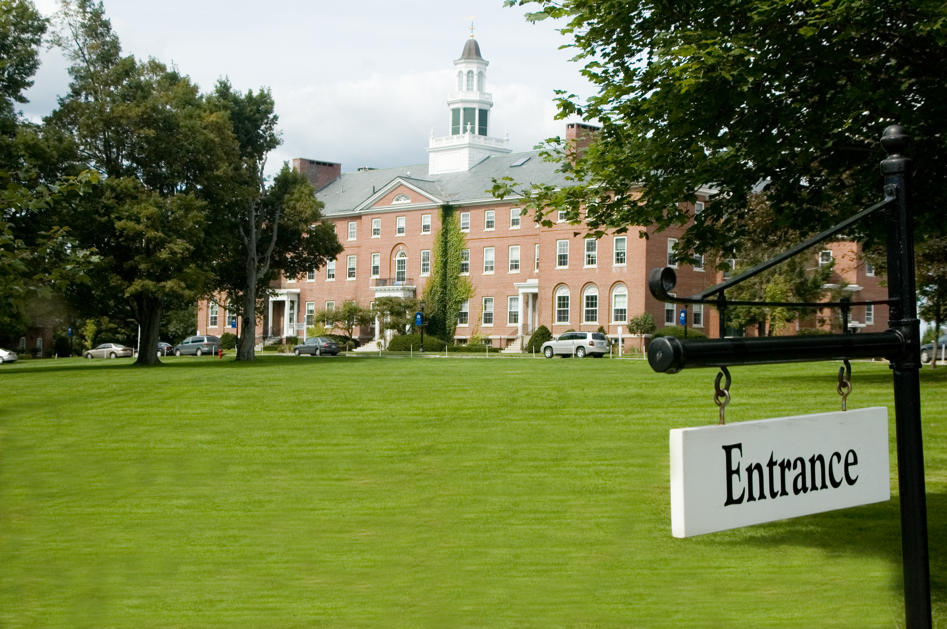 picture taken by user:josephbrophy on aug 30 2006; is copyright freejoe 03:16, 2 September 2006 (UTC)